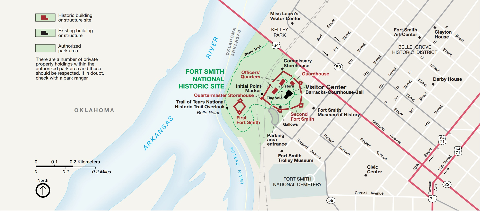 park map, originally listed as work of US National Park Service at